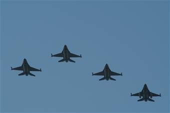 Overview: A Four Finger Formation of F-16s from the 457th Fighter Squadron, about to execute a missing man formation over Dallas - Fort Worth National Cemetery, Texas, for "A Tribute to Veterans".